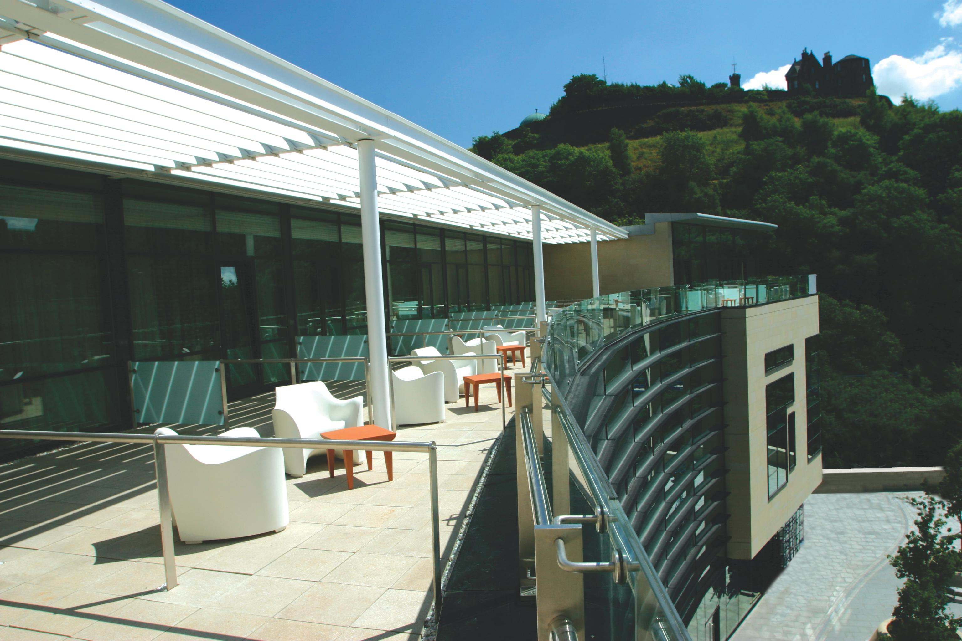 Photo taken on the balcony of the Glasshouse hotel in Edinburgh